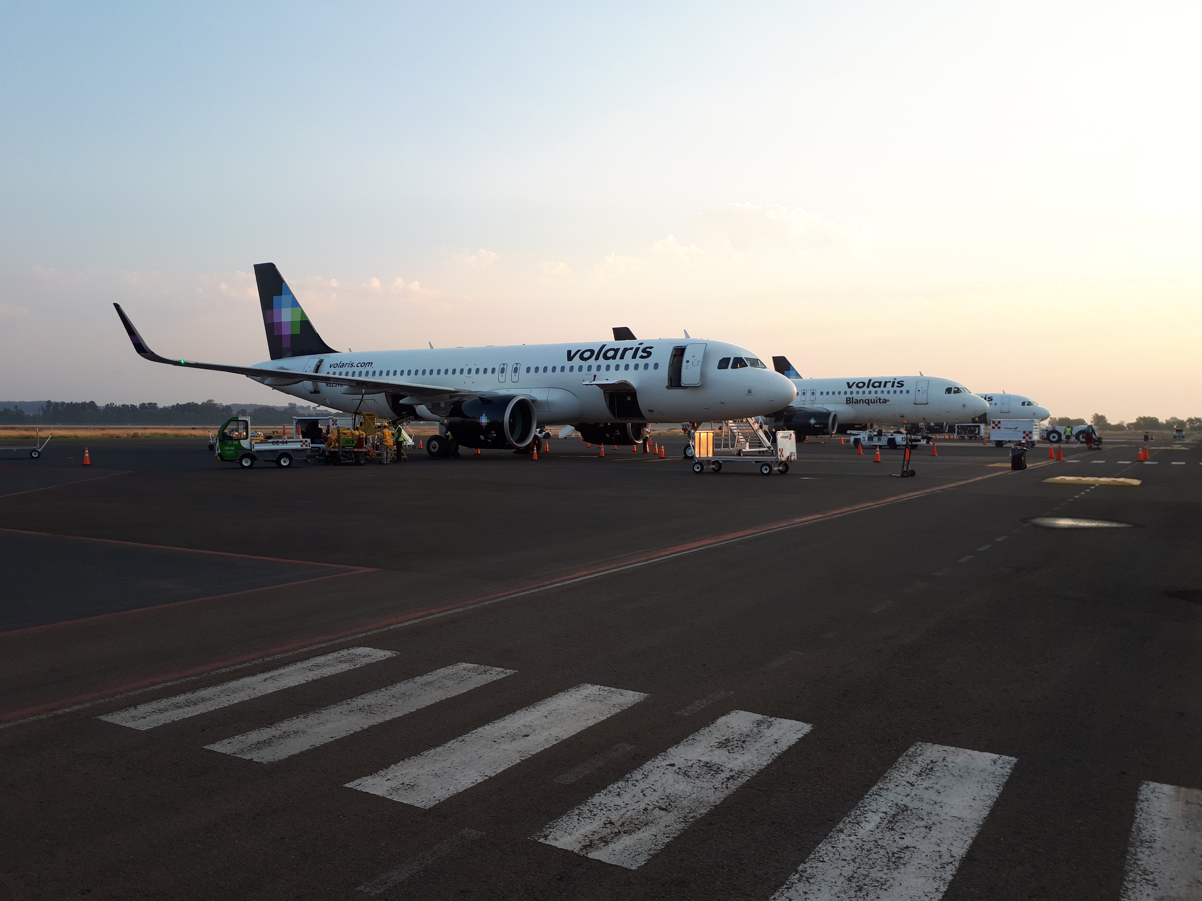 Three Volaris aircraft, an Airbus A320 Neo and two A320 Ceo, line up at Morelia International Airport tarmac.